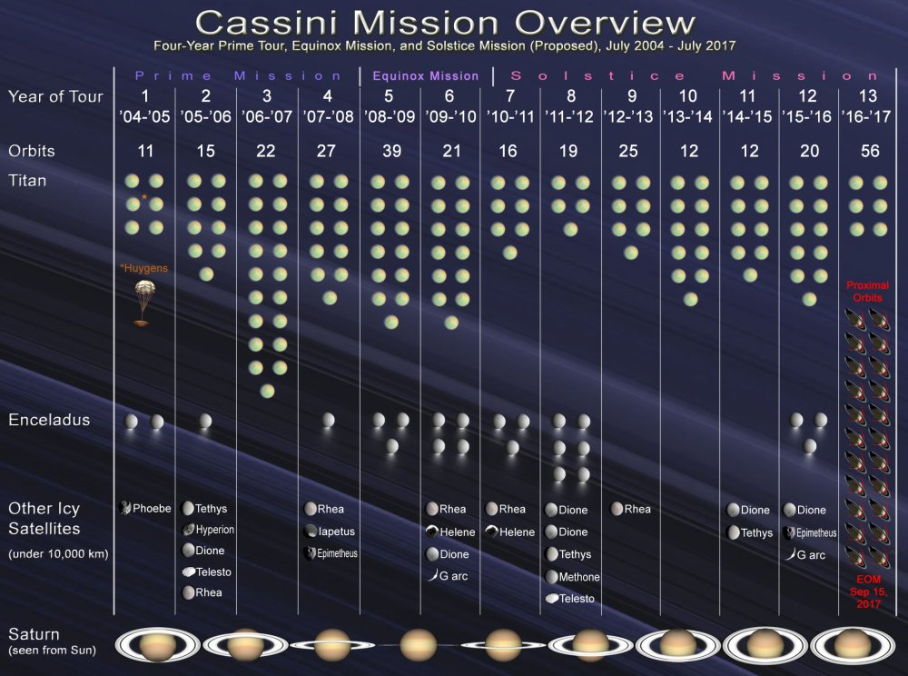 Overview over the "Solstice Mission"